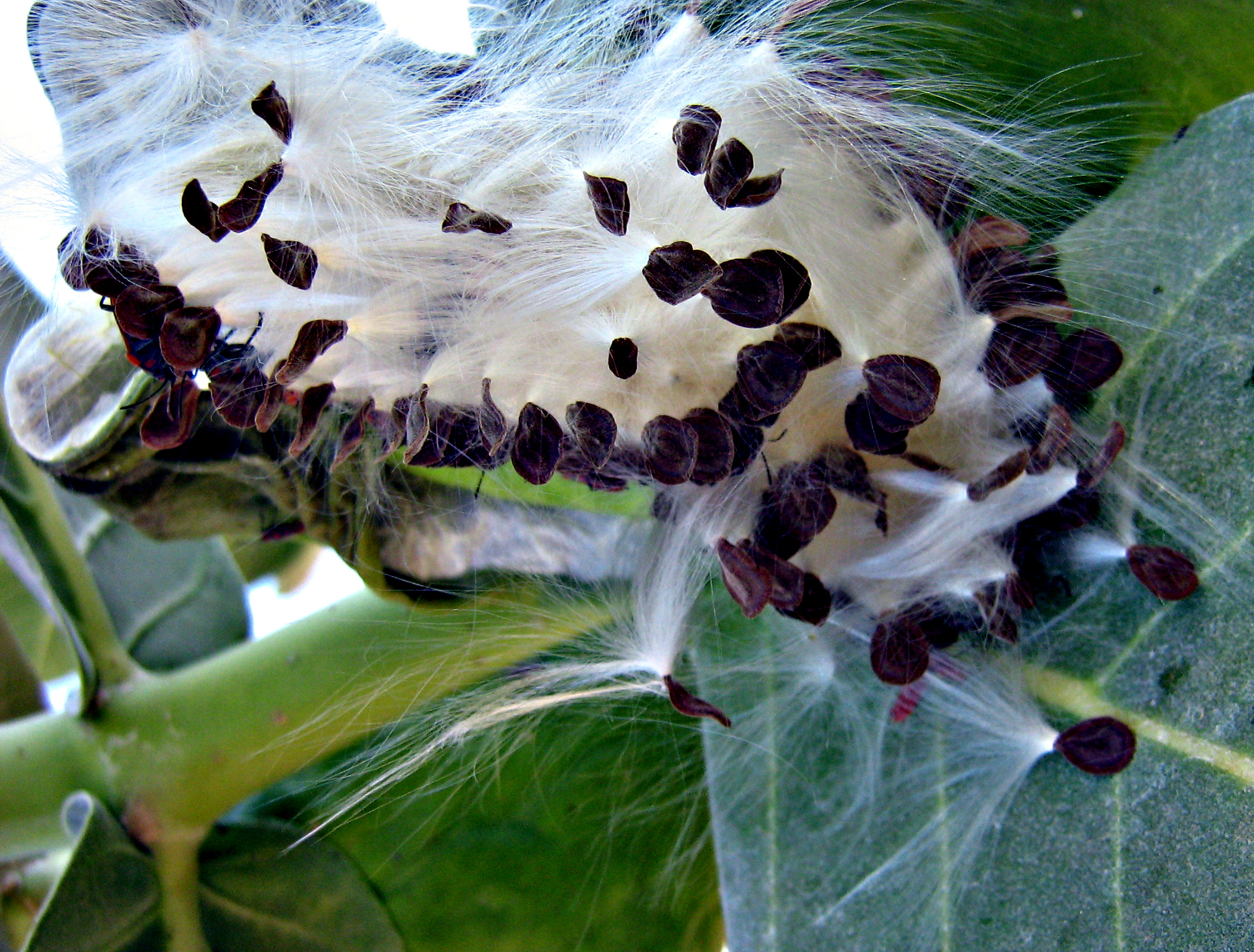 Fruits Calotropis procera. Seed. Libya.